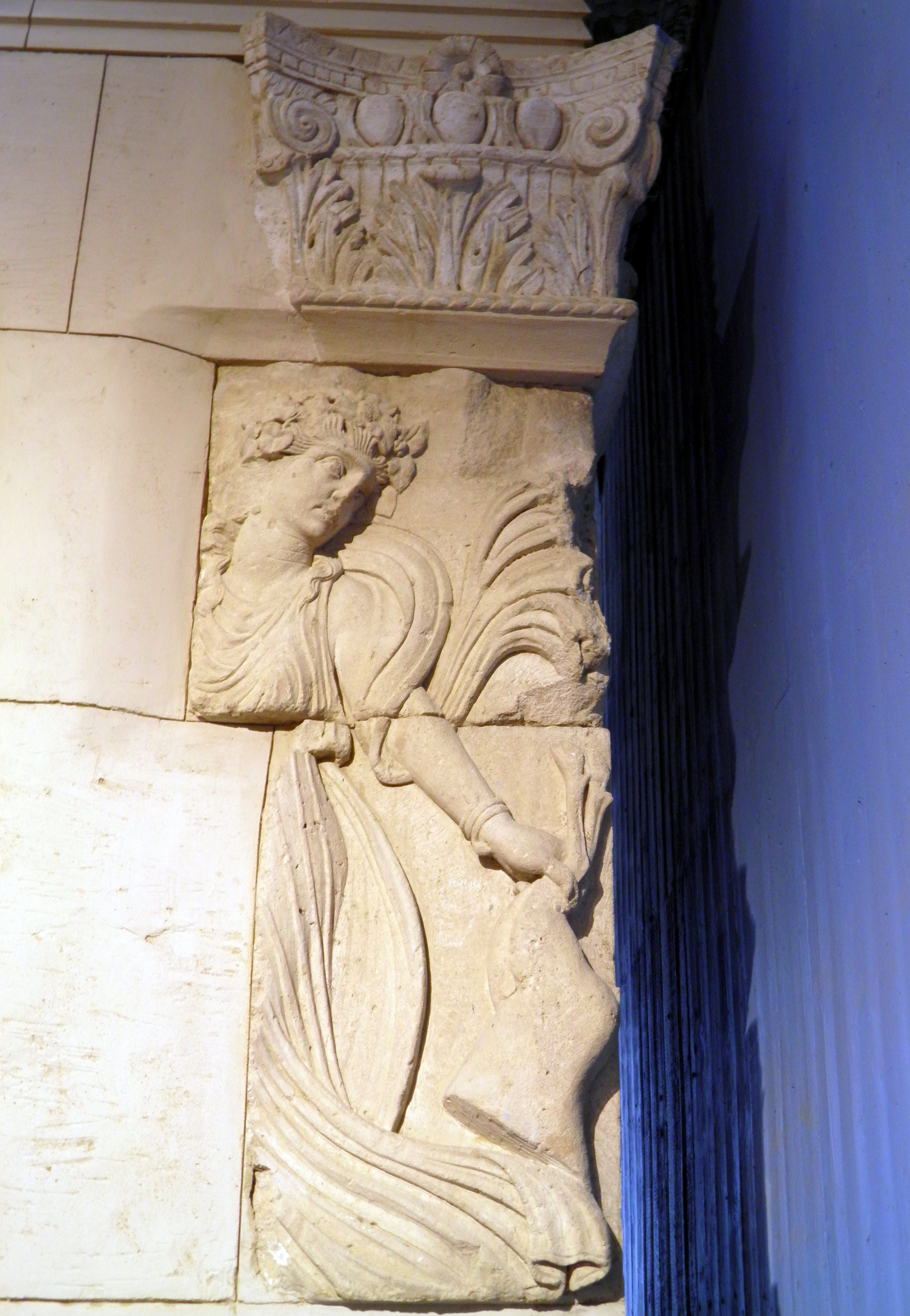 Tomb of Poblicius (from Teretina, veteran of the 5th legion), c. 40 A.D. (detail), Romisch-Germanisches Museum, Cologne